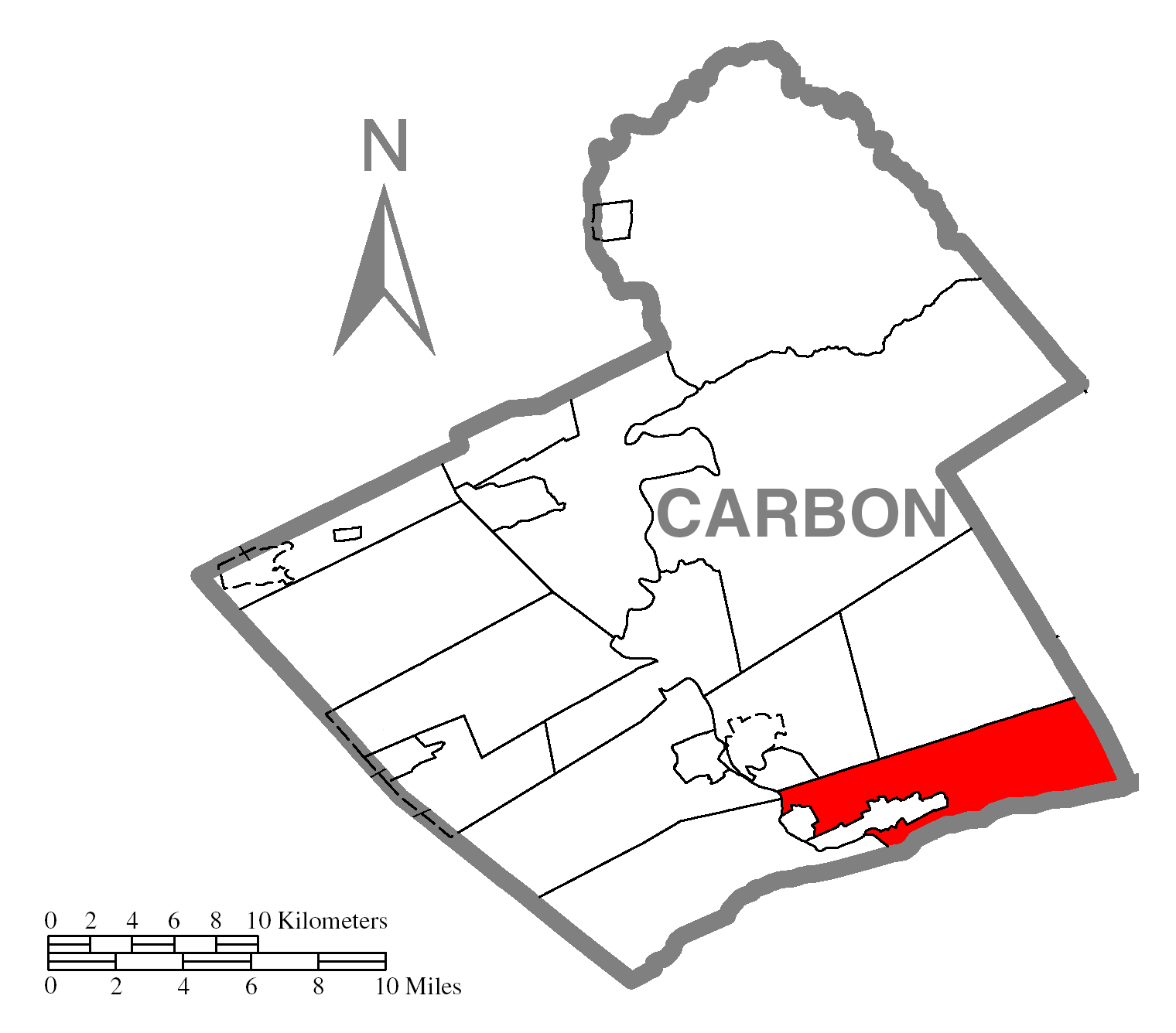 A map of Carbon County showing Lower Towamensing Township, Pennsylvania (alternate) highlighted on the map.